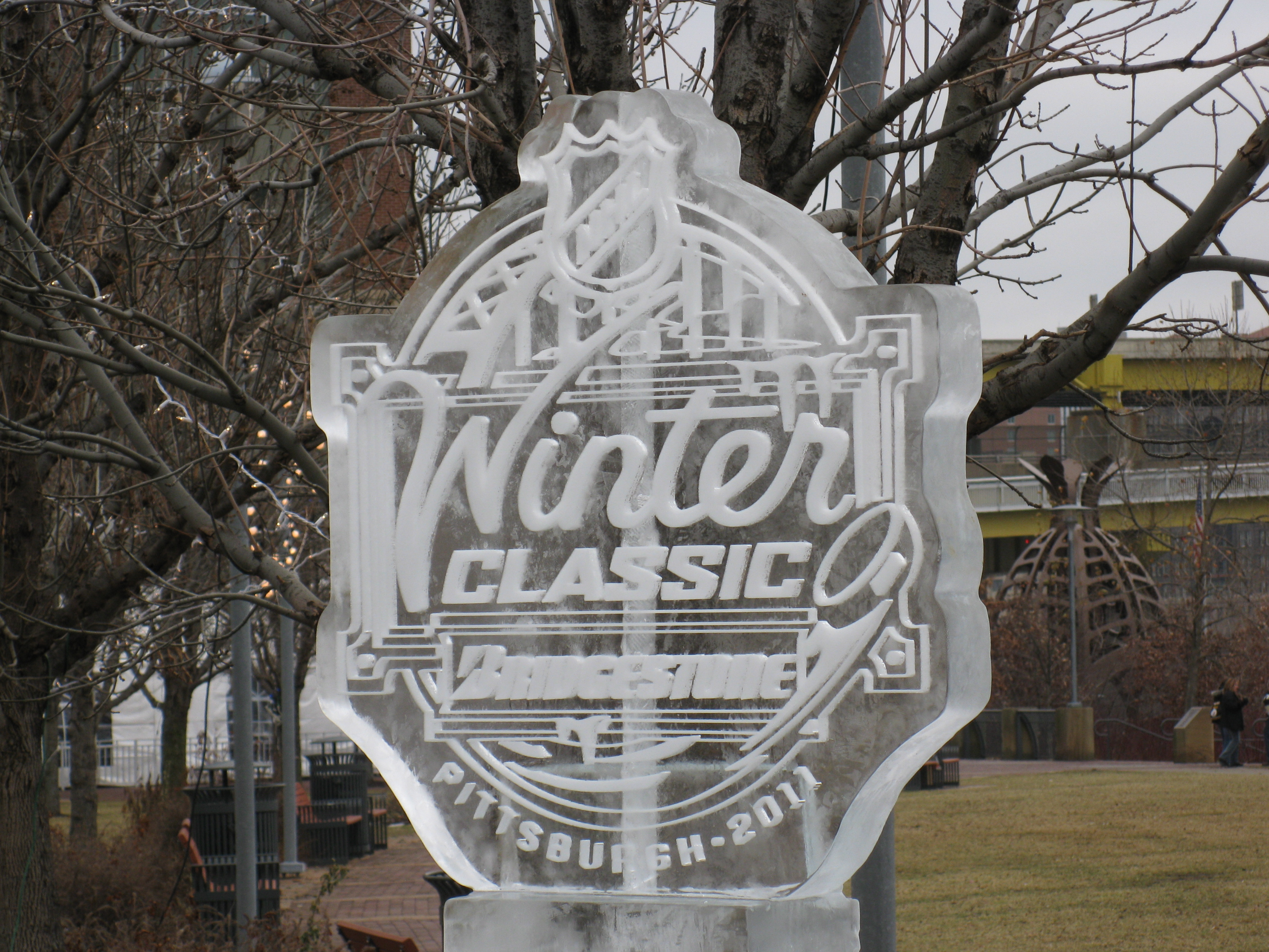 Fresh Ice Sculpture of Winter Classic